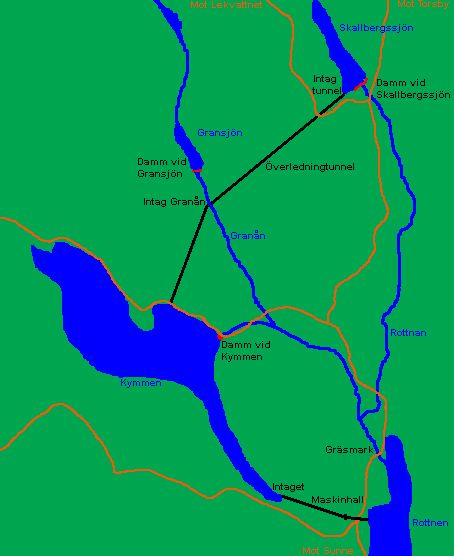 Overview map on Kymmenprojektet